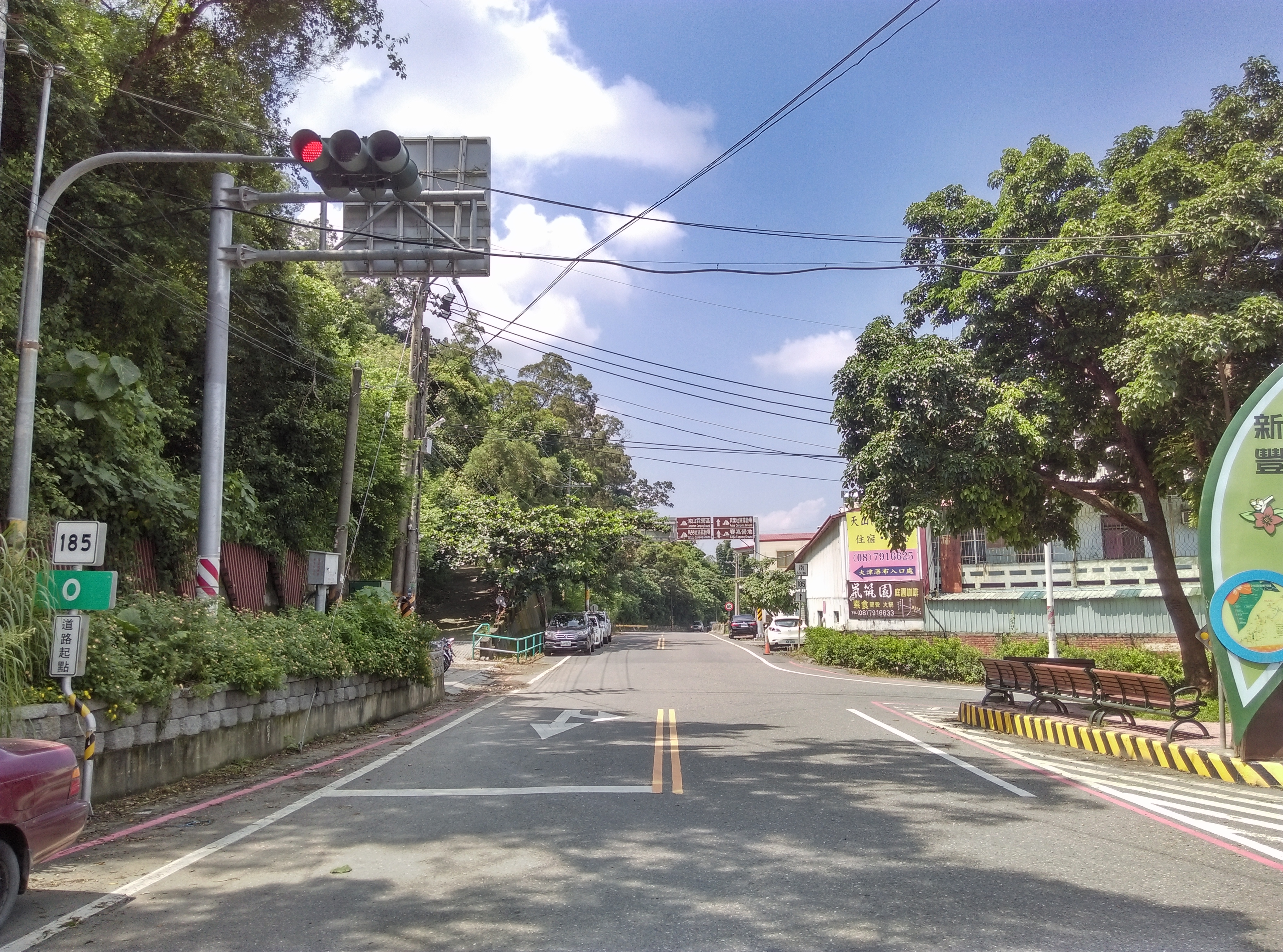 Begin of Taiwan County Highway 185.